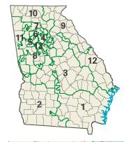 U.S. state of Georgia Congressional district maps for the 108th Congress. See Category:Congressional districts of Georgia